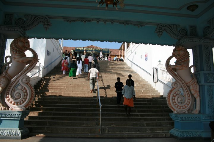 Steps to the Annapurneswari temple at Horanadu. The view is from the road to the elevated temple entrance.